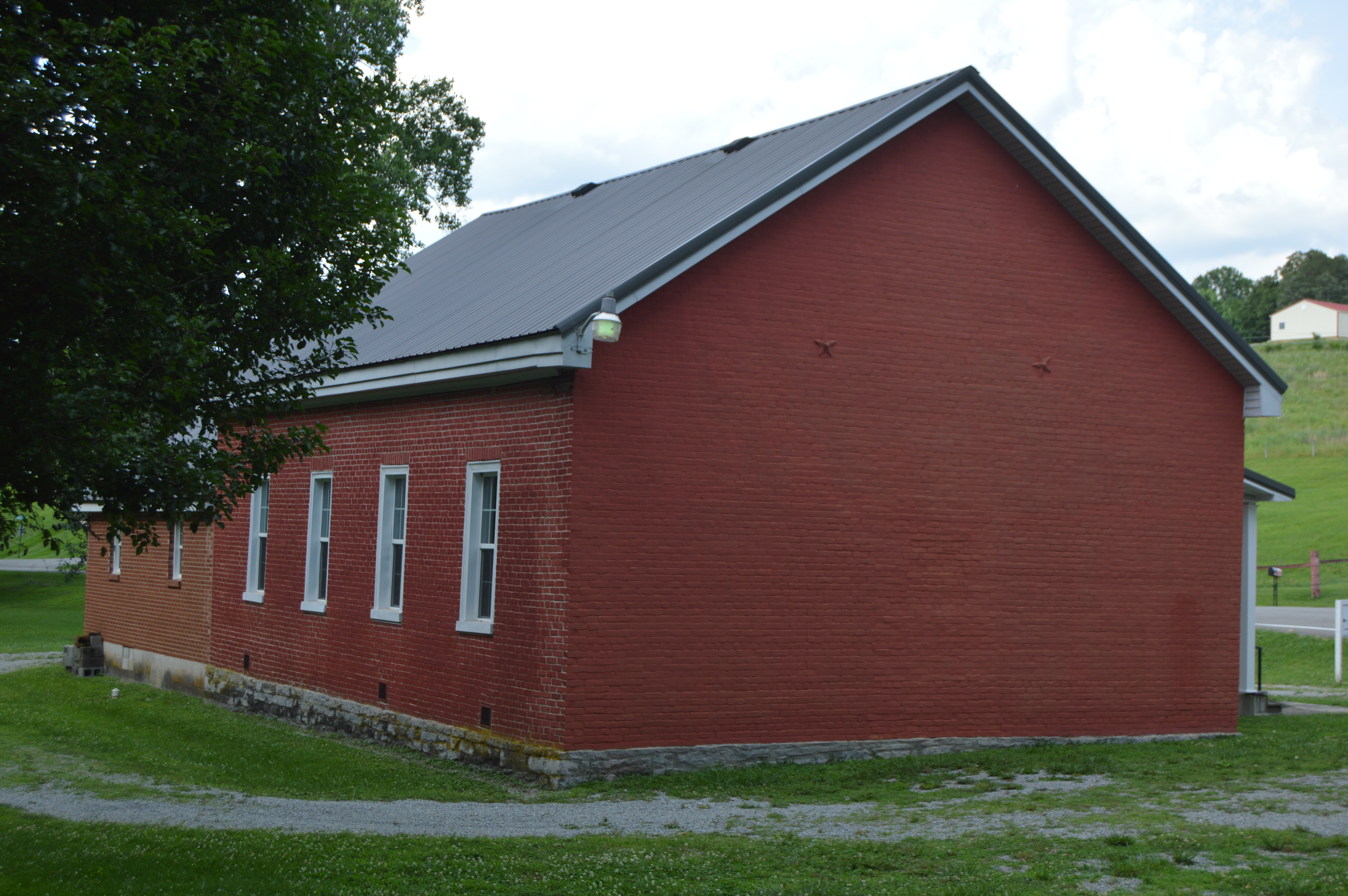 Rear of the Mt. Gilead Christian Church, located at the intersection of Kentucky Routes 767 and 2188 northwest of Columbia in Green County, Kentucky, United States. Built in 1864 as a Baptist church, it is listed on the National Register of Historic Places.